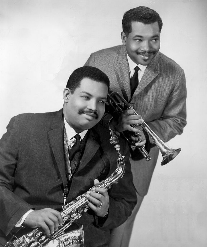 Photo of brothers and jazz musicians Julian "Cannonball" Adderley (sax) and Nat Adderley (cornet).